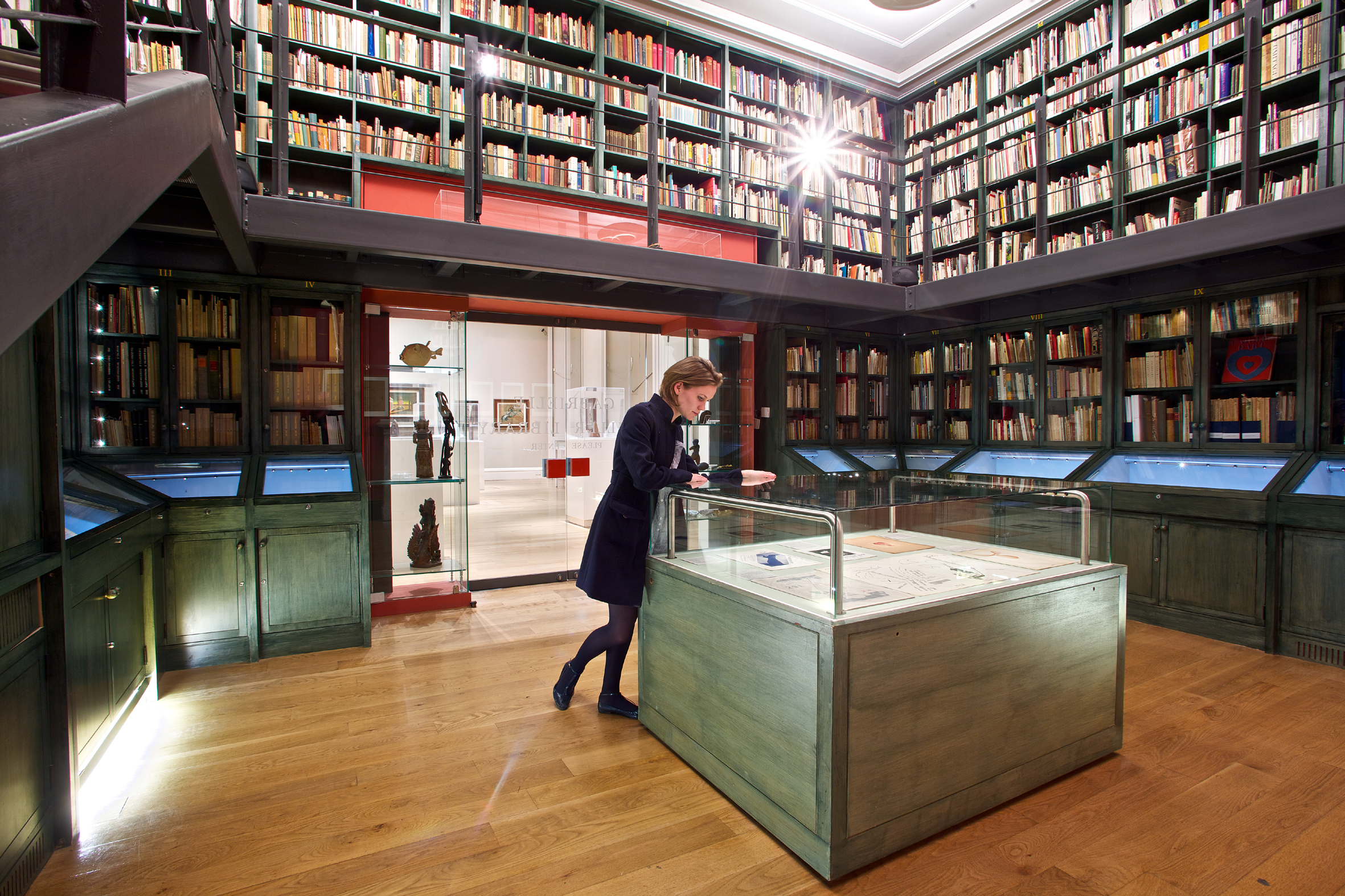 Scottish National Gallery of Modern Art Two, Keiller Library